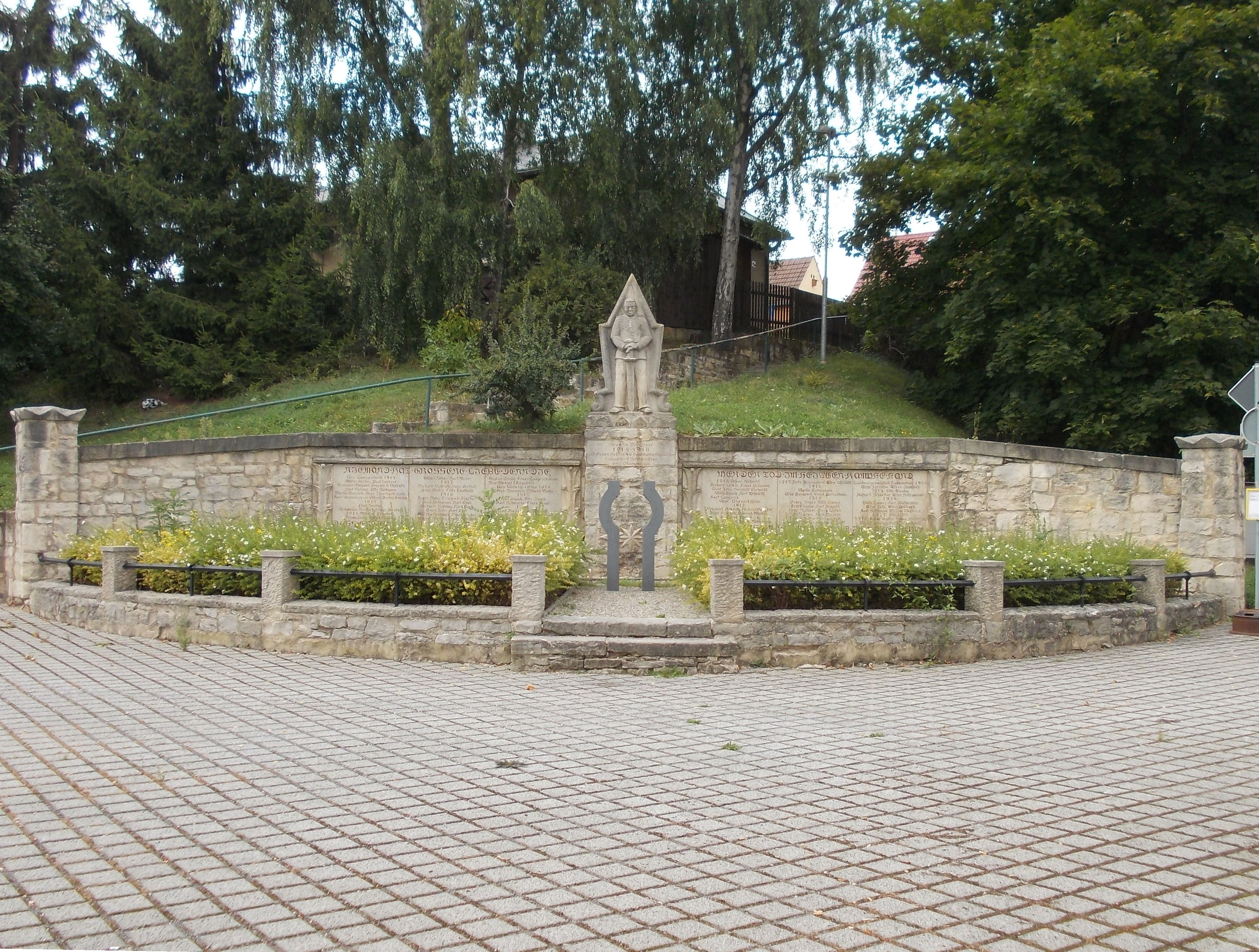 World War I and II memorials at Denkmaplsplatz in Langendorf (Weissenfels, district: Burgenlandkreis, Saxony-Anhalt)